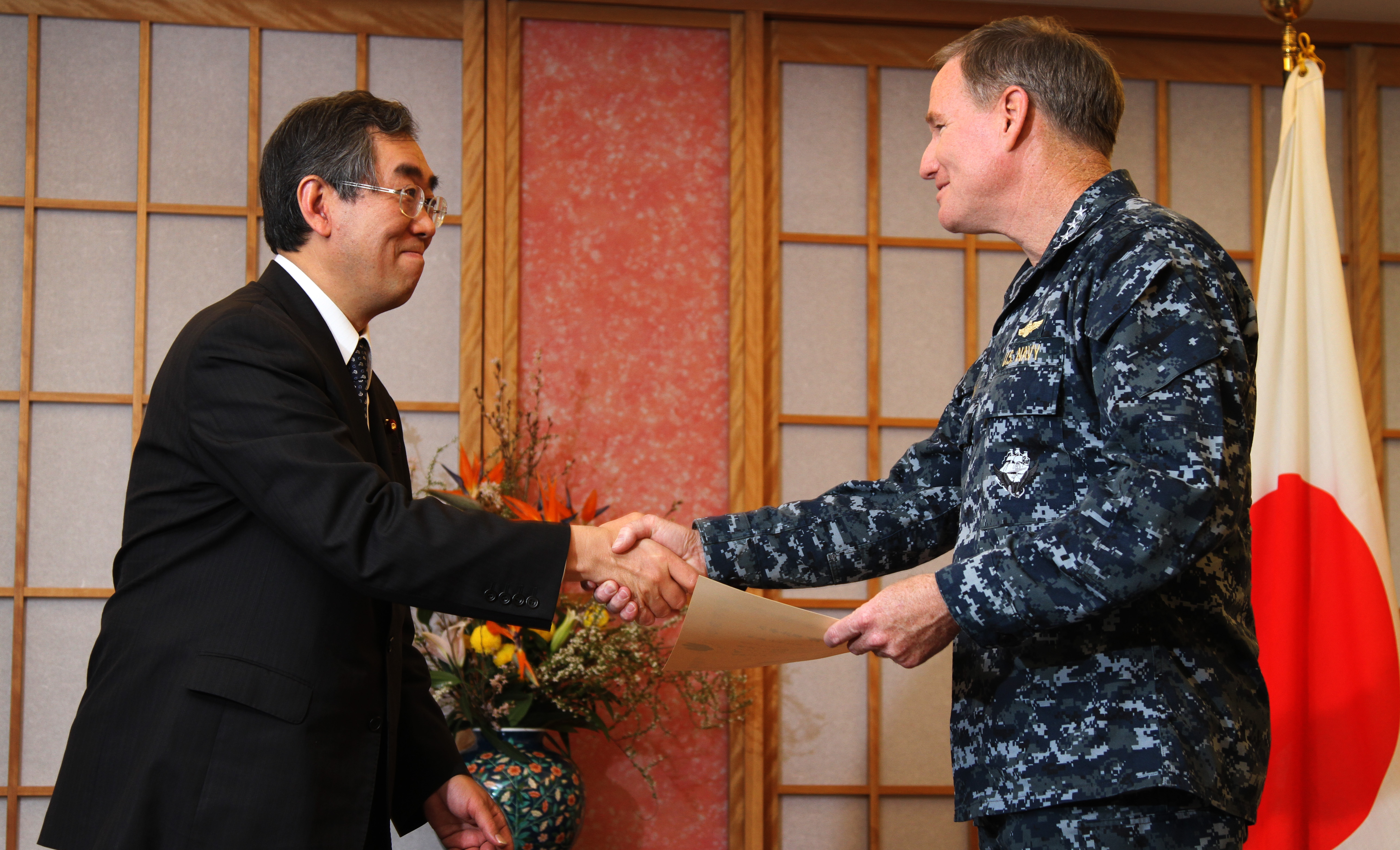 ICHIGAYA, Japan (April 11, 2011) Japan Minister of Foreign Affairs, Takeaki Matsumoto, left, presents a farewell gift to Adm. Patrick M. Walsh, Commander, Joint Support Force, for U.S. military support to Operation Tomodachi. (U.S. Army photo by Spc. Tiffany Dusterhoft/Released)